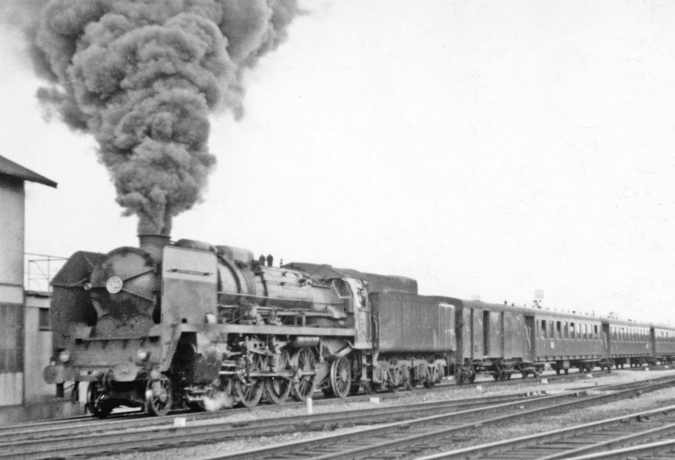 PLM 2-8-2 on a Paris (Montparnasse) - Granville express leaving Argentan (Orne), 1956.